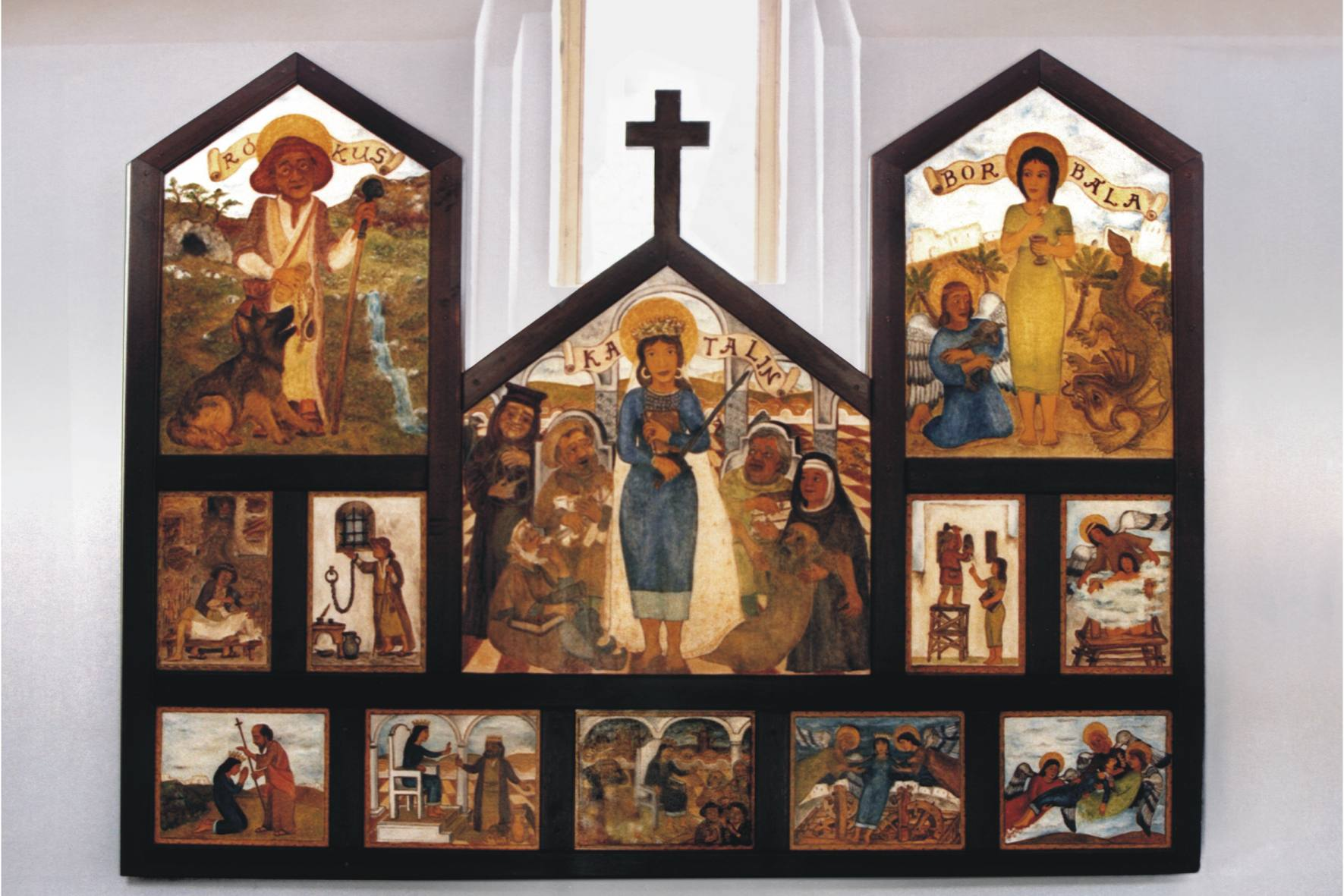 Zoltan Joo (1956-): Altar of St. Catherine is in St. Catherine chapel, 2000's works, Telkibanya, Hungary